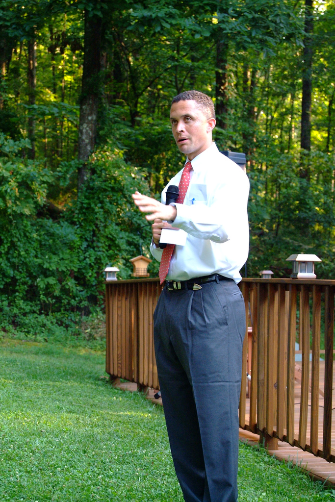 Congressman Harold Ford Jr. campaigning for the 2006 U.S. Senate race in Chattanooga, TN.